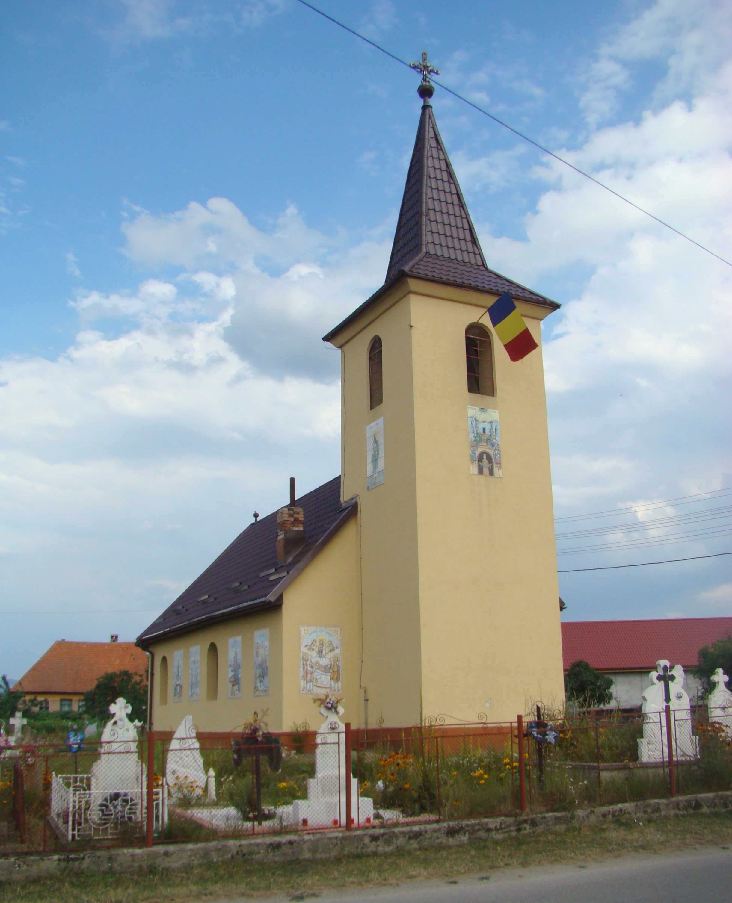 Râu Bărbat, Hunedoara county, Romania